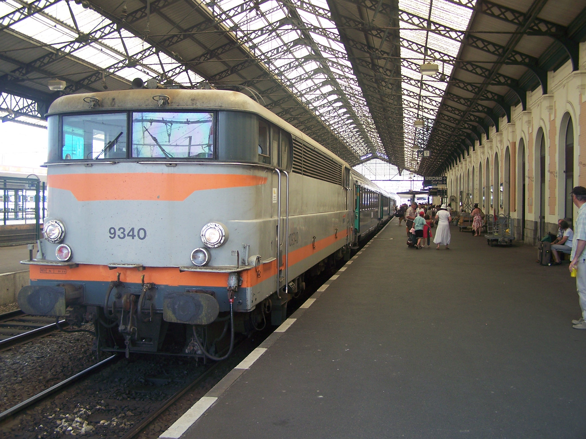 French regional train coming from Bordeaux ends up its journey at its arrival at Hendaye station, close to the Spanish border.